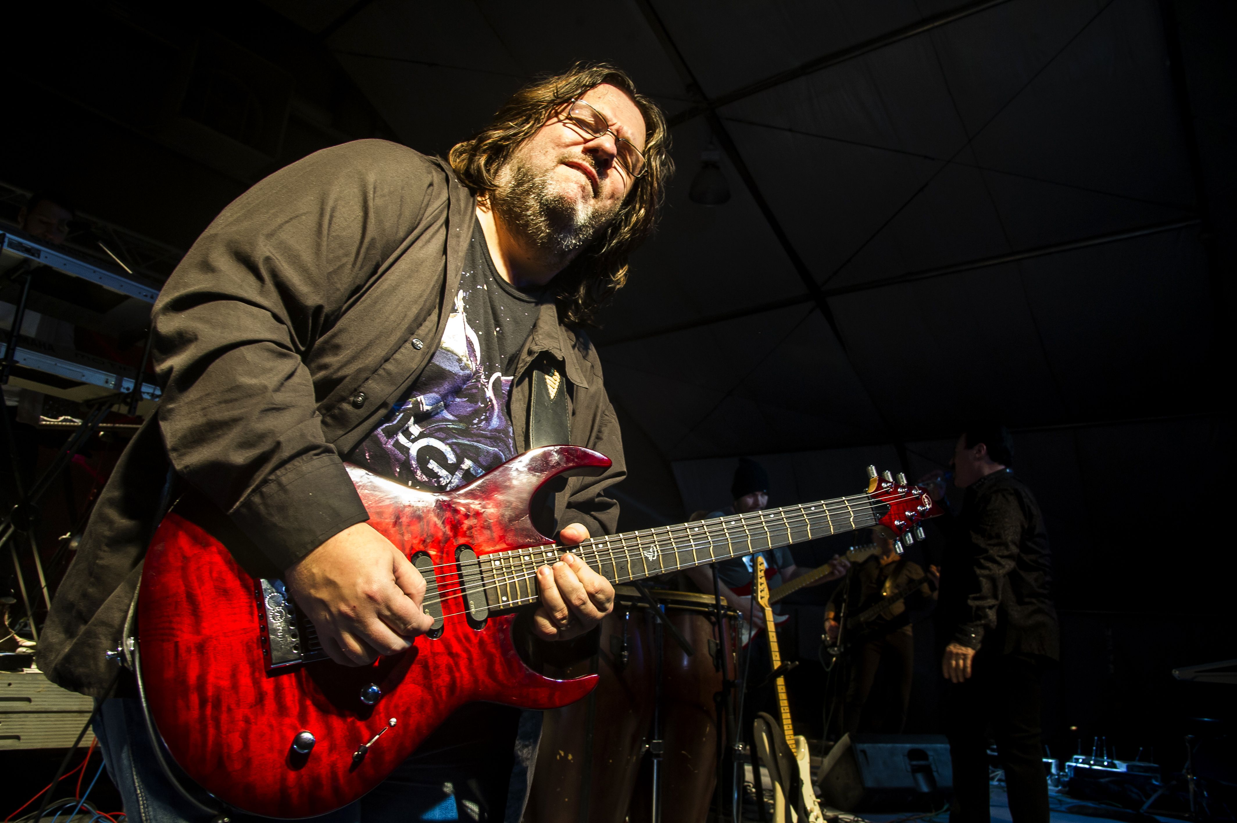 Tommy Denander, guitarist, plays a solo during a performance at Transit Center at Manas, Kyrgyzstan, Dec. 31, 2013. Bobby Kimball, Alex Ligertwood and Bill Champlin performed for members of TCM to celebrate the New Year. More than 1200 Service members and civilian counterparts attended the event. “His signature VGS guitar is a major success and features both the EverTune bridge and True Temperment frets.” —article "Tommy Denander" on English Wikipedia